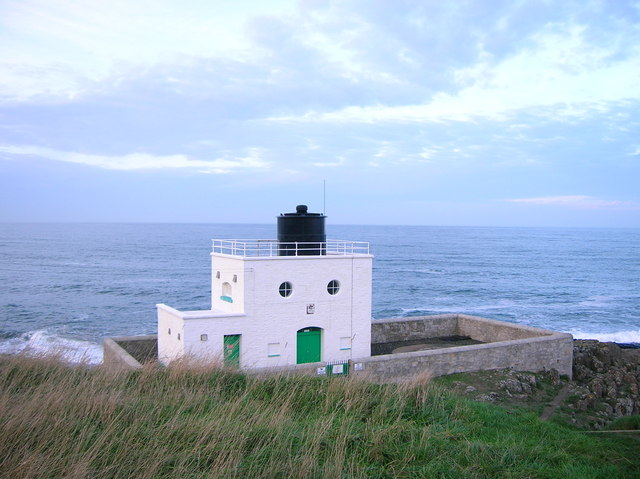 Lighthouse, Harkess Rocks approx. 1 mile north-west of Bamburgh castle NU1835